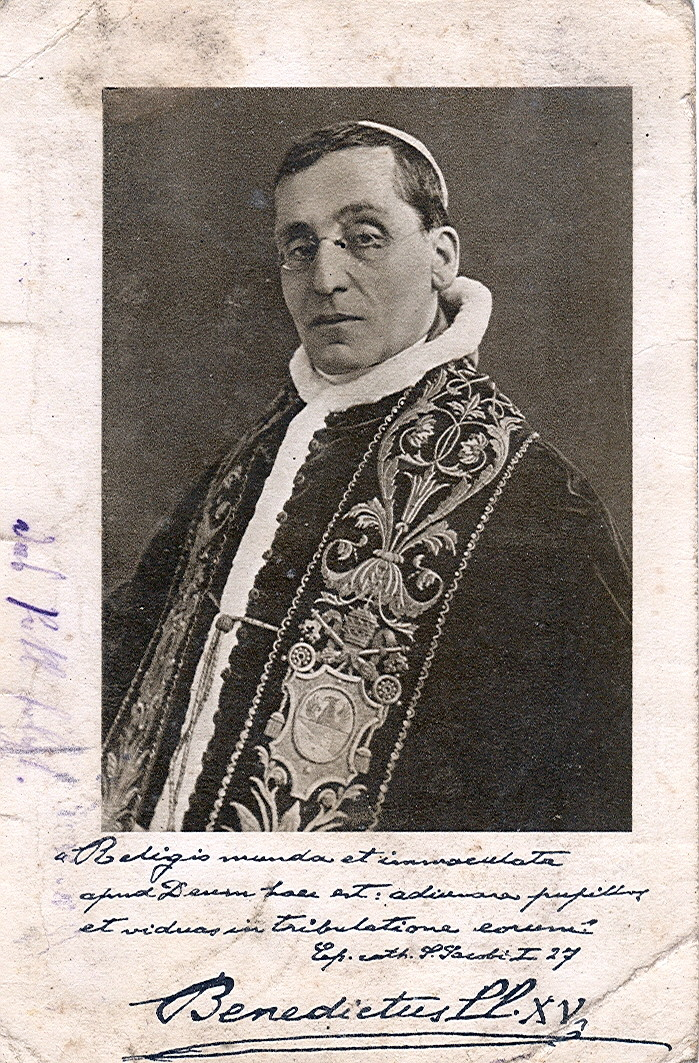 Postcard, undated ( ca.1915 ) showing pope Benedict XV